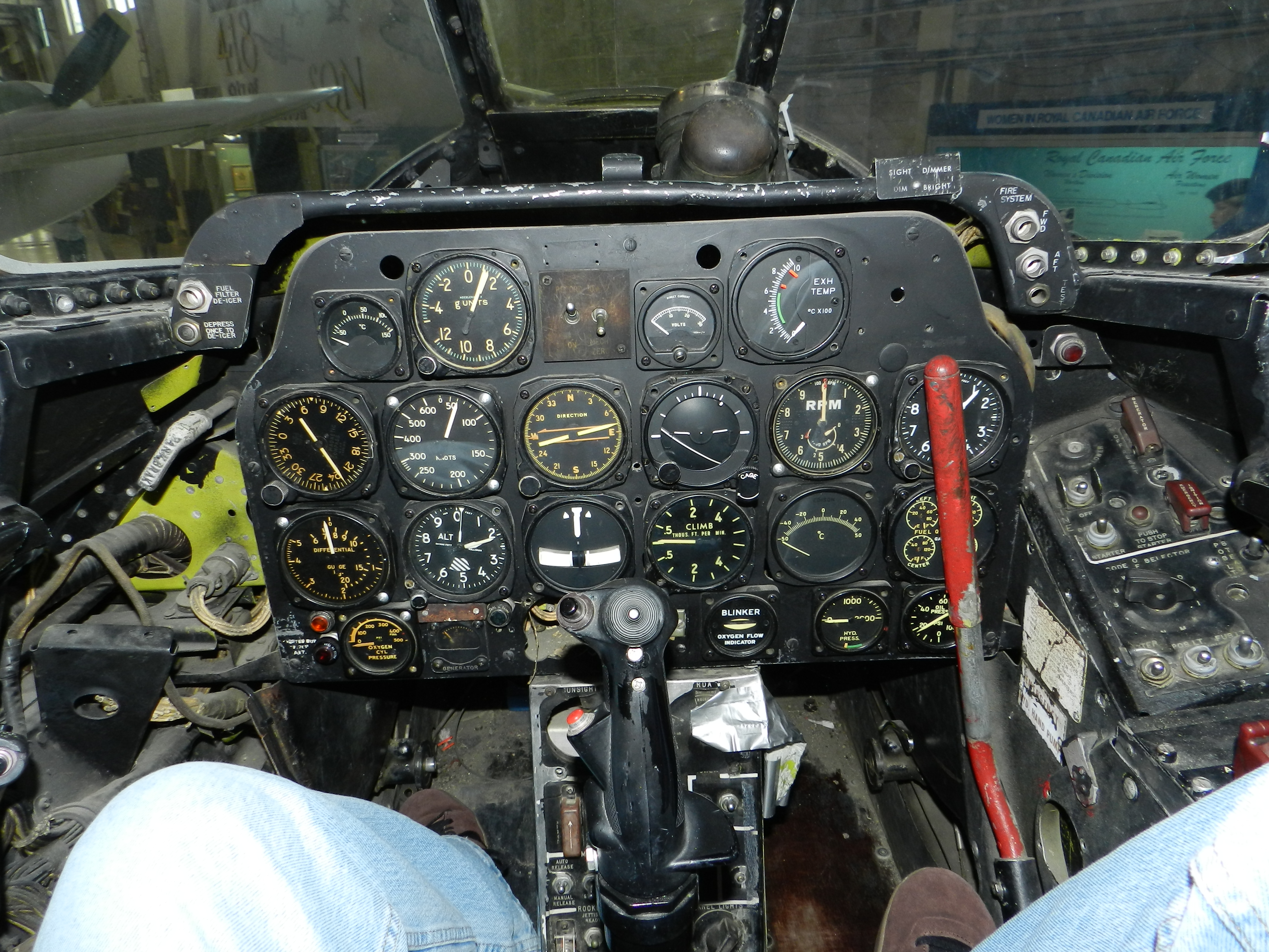 Canadair Sabre Mk. 1 cockpit at the Alberta Aviation Museum